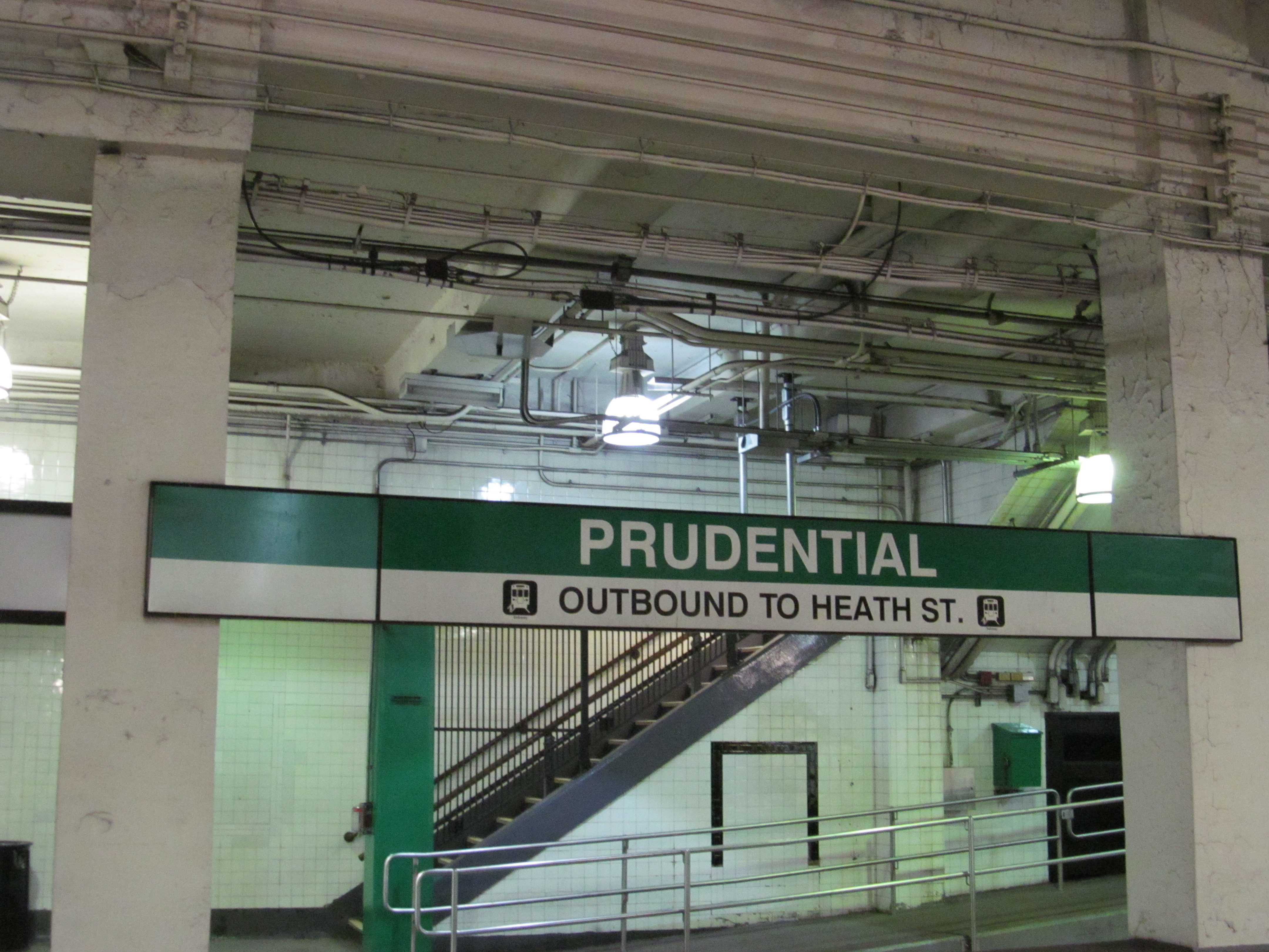 Station sign on the outbound platform at Prudential